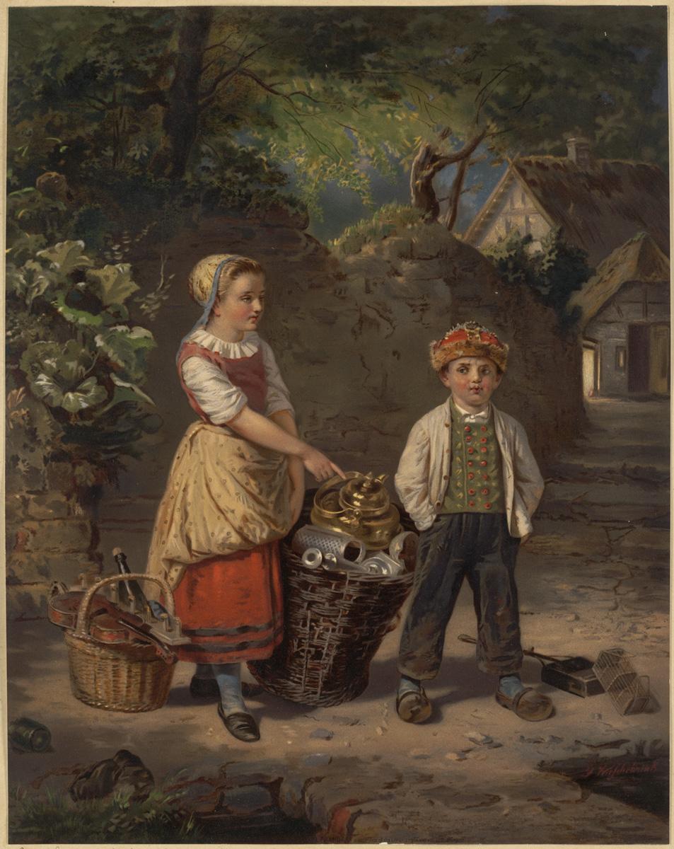 File name: 07_11_001164 Title: On a Strike Creator/Contributor: Wieschebrink, Franz (artist); L. Prang & Co. (publisher) Date issued: 1861-1897 (approximate) Copyright date: Physical description note: Proof print Genre: Chromolithographs Portrait prints; Group portraits; Proofs Location: Boston Public Library, Print Department Rights: No known restrictions Flickr data on 2011-08-04: Camera: Sinar AG Sinarback 54 FW, Sinar m License: CC BY 2.0 User: Boston Public Library BPL